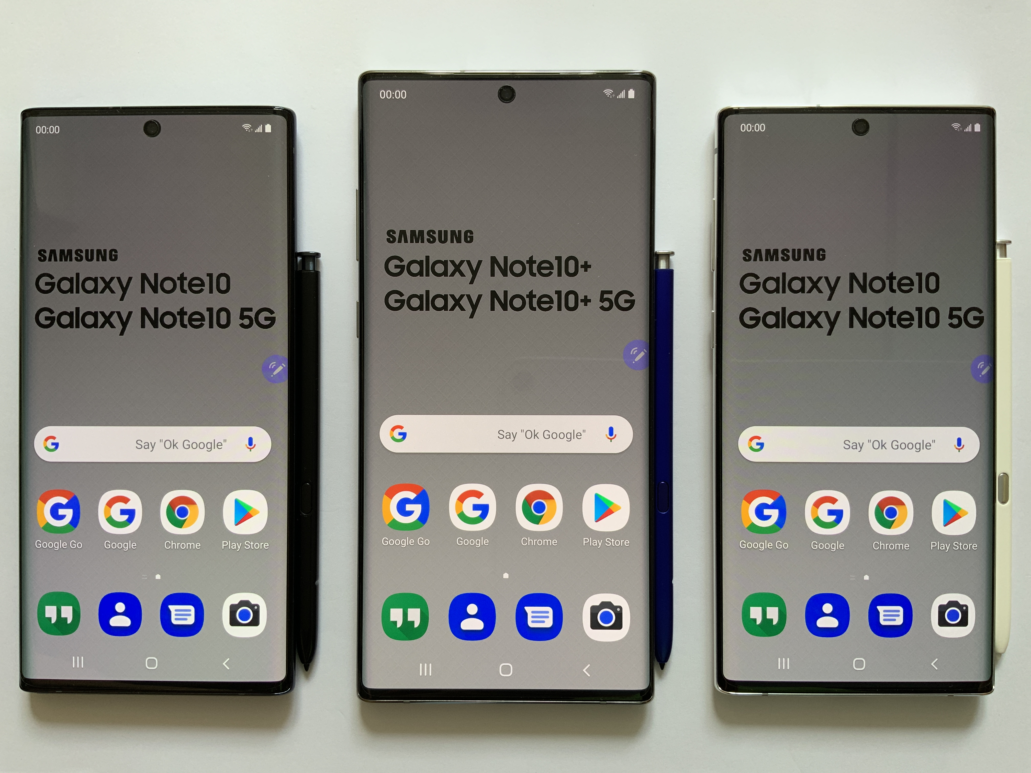 SAMSUNG Galaxy Note10 SAMSUNG Galaxy Note10 5G SAMSUNG Galaxy Note10+ SAMSUNG Galaxy Note10+ 5G